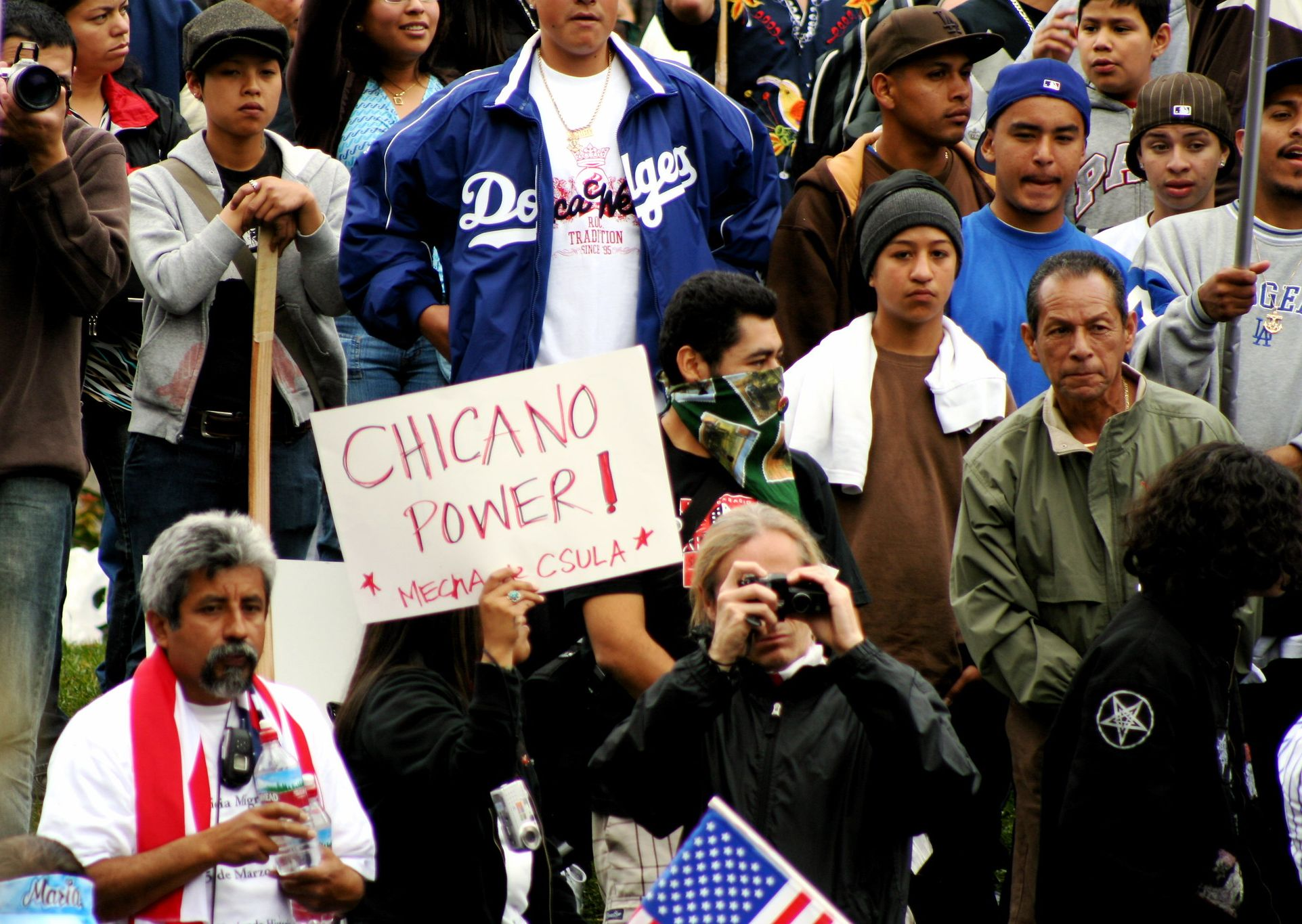 A "Chicano Power!" sign created by .A. Cal State University, Los Angeles is held up in a crowd of people.